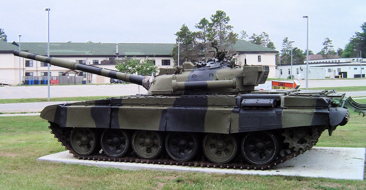 T-72 tank (donated by Germany, from the army of East Germany) Worthington Tank Museum at CFB Borden (Ontario, Canada).